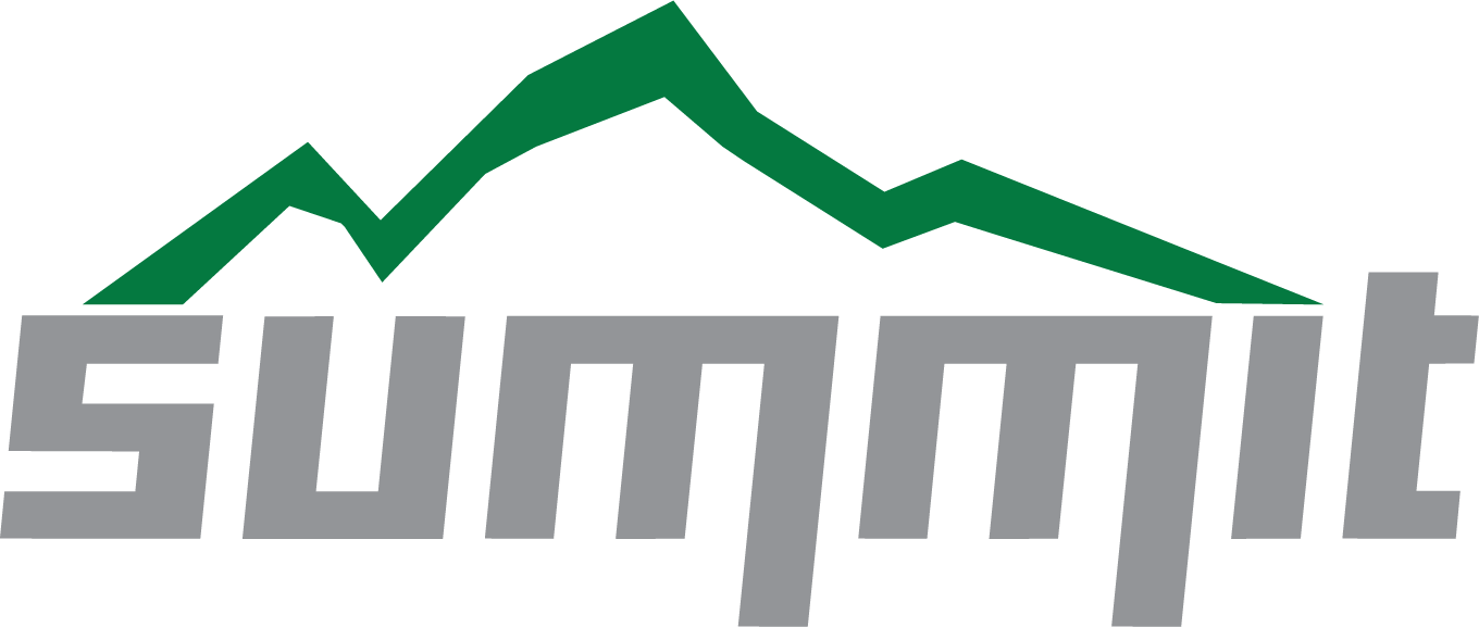 The Oak Ridge Leadership Computing Facility's Summit supercomputer is the next leap in leadership-class computing systems for open science. With Summit we will be able to address, with greater complexity and higher fidelity, questions concerning who we are, our place on earth, and in our universe. Summit will deliver more than five times the computational performance of Titan’s 18,688 nodes, using only approximately 4,600 nodes when it arrives in 2018.